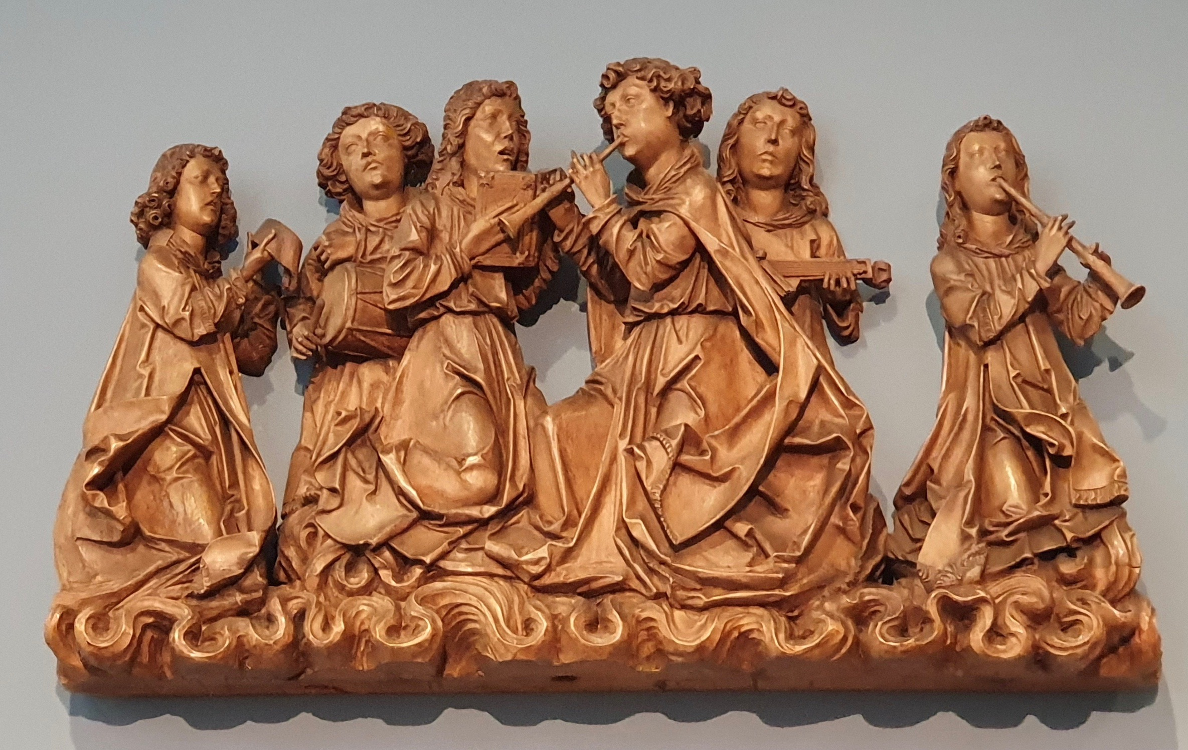 Angels singing and playing musical instruments, by Tilman Riemenschneider workshop, c. 1505, linden wood - Bode-Museum